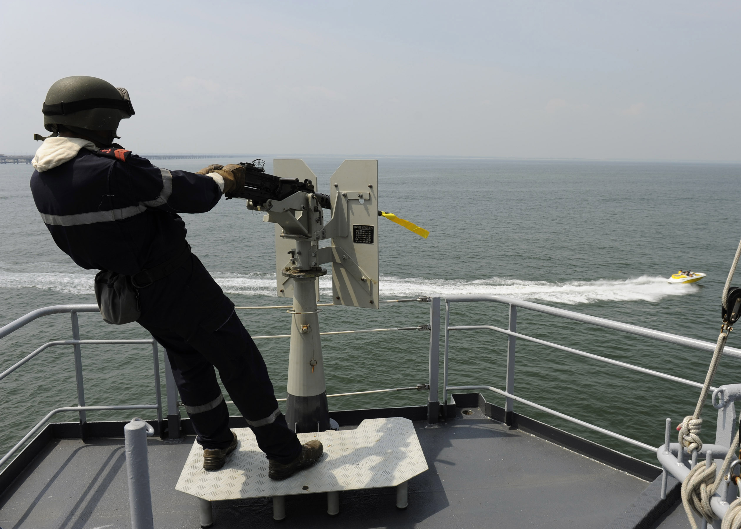 110627-N-ME988-361 ATLANTIC OCEAN (June 27, 2011) A sailor aboard the French navy frigate FS Ventose (F 733) tracks a surface contact during an exercise supporting FRUKUS 2011. FRUKUS is an invitational exercise intended to enhance communication and interoperability between the navies of France, Russia, the United Kingdom and the United States. (U.S. Navy photo by Mass Communication Specialist 3rd Class Darren Moore/Released)